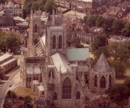 York Minster after the fire. On Monday July 9th 1984, the South Transept of York Minster caught fire. The following Saturday, I flew over York (with a friend piloting the aircraft), and took this photo of the partly roofless building. See this article on the BBC website for more information on what happened